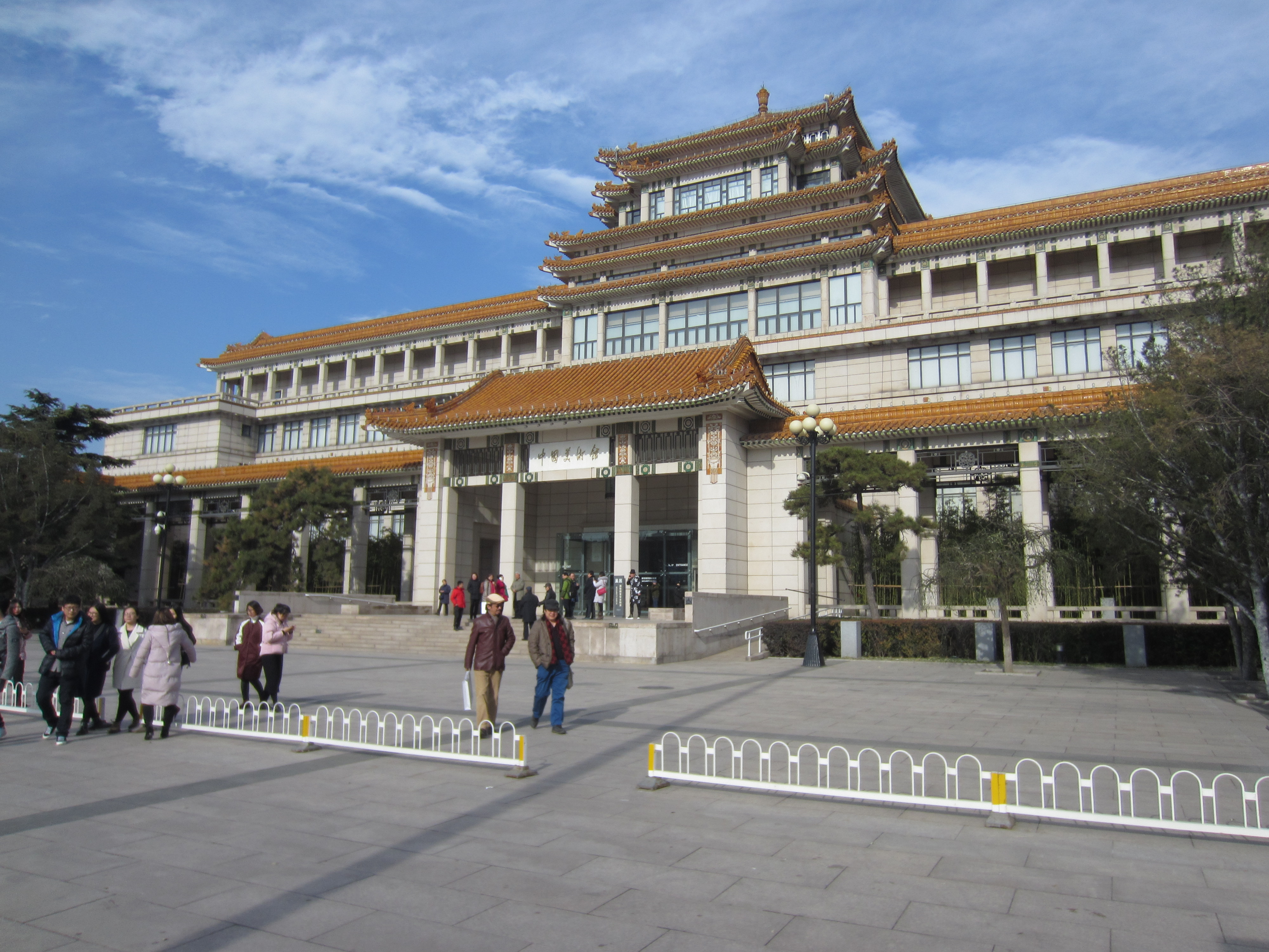 Beijing (November 2016)